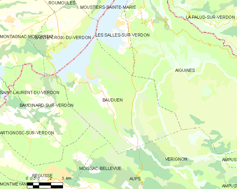 Map of French municipality Bauduen